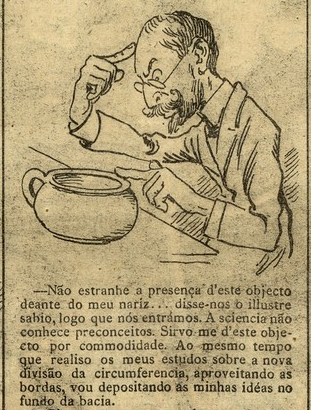 Caricature of António Cabreira (1868–1953) studying a chamber pot; published in the satirical periodical A Paródia, run by Rafael Bordalo Pinheiro, in 1902.